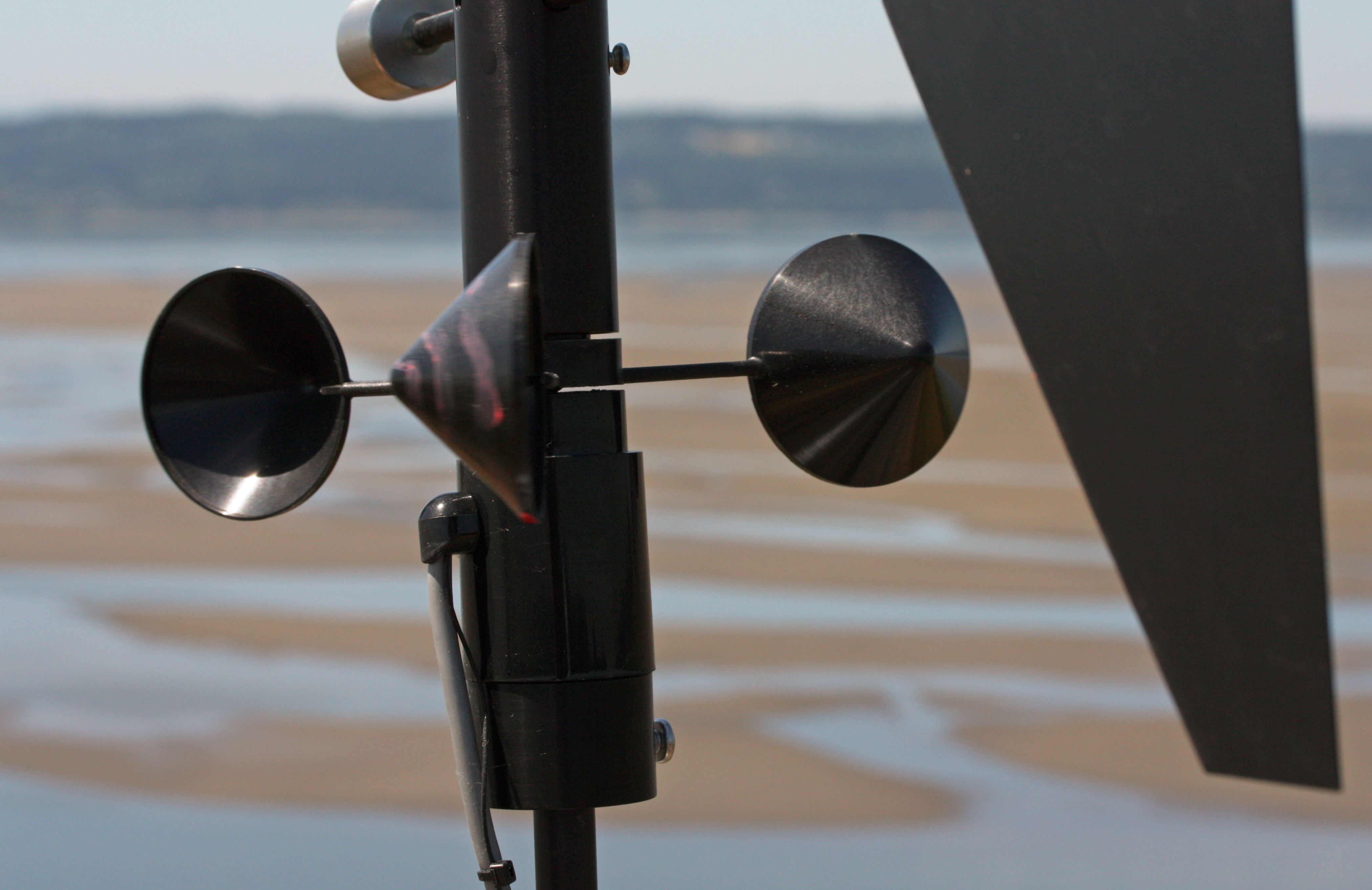 Anemometer (remote meteorological station; Category: Anemometers) deployed July and August, 2009, for the Applied Physics Laboratory (University of Washington) Tidal Flats Project (ONR Office of Naval Research; Department Research Initiative), Jim Thomson and Chris Chickadel (investigators), a study of the thermal signatures of inter-tidal sediments